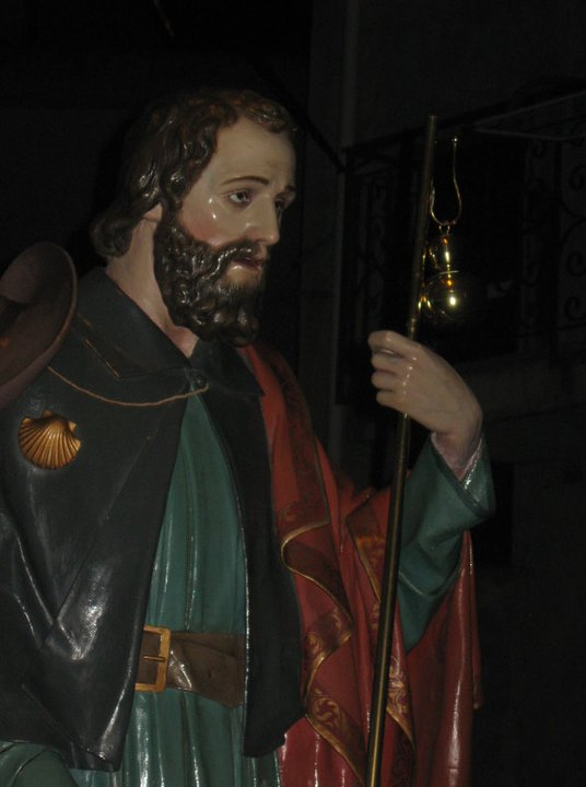 San Rocco procession during Grisolia